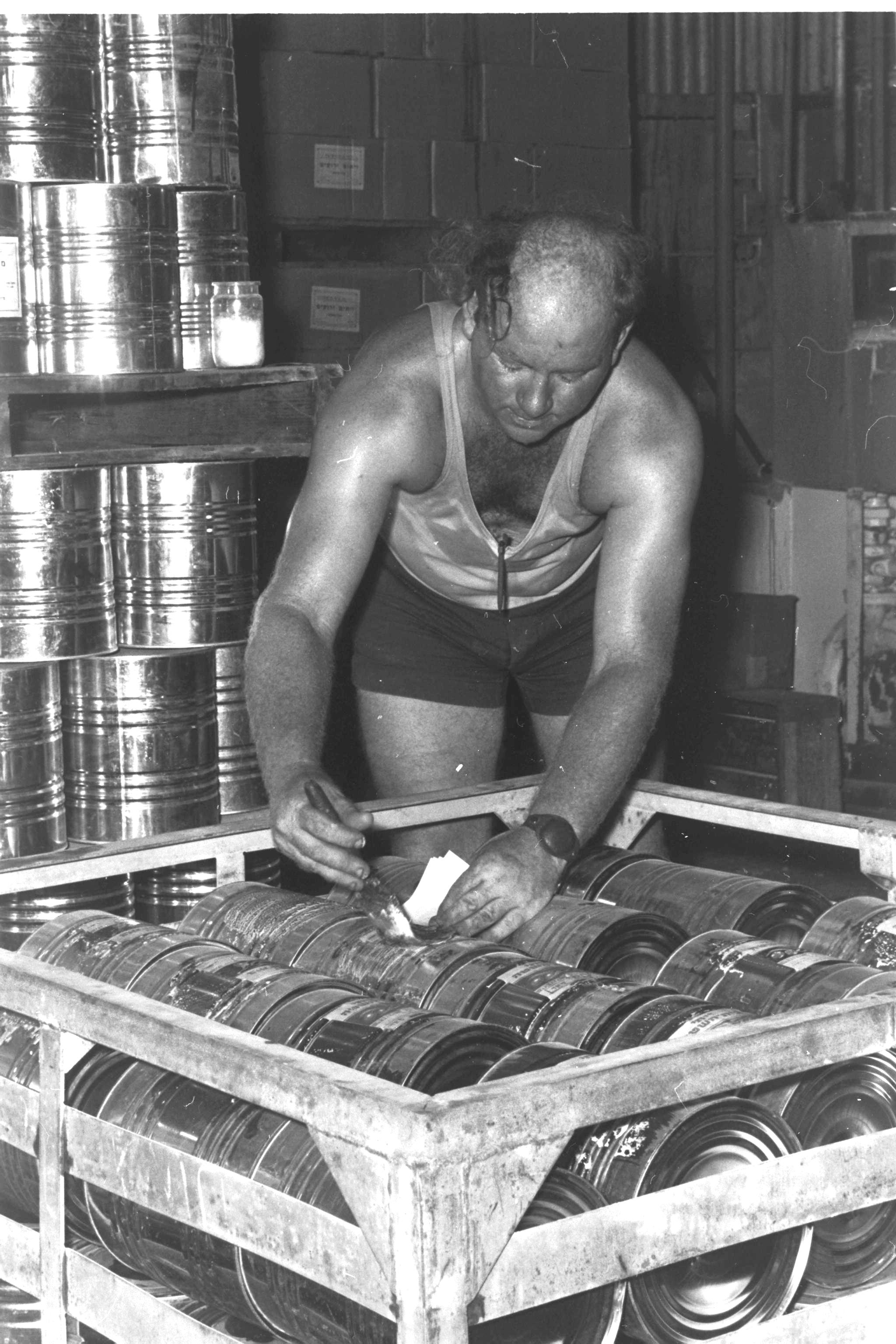 A worker prepares canned olives for dispatch at the processing plant in Kibbutz Beit Hashita.